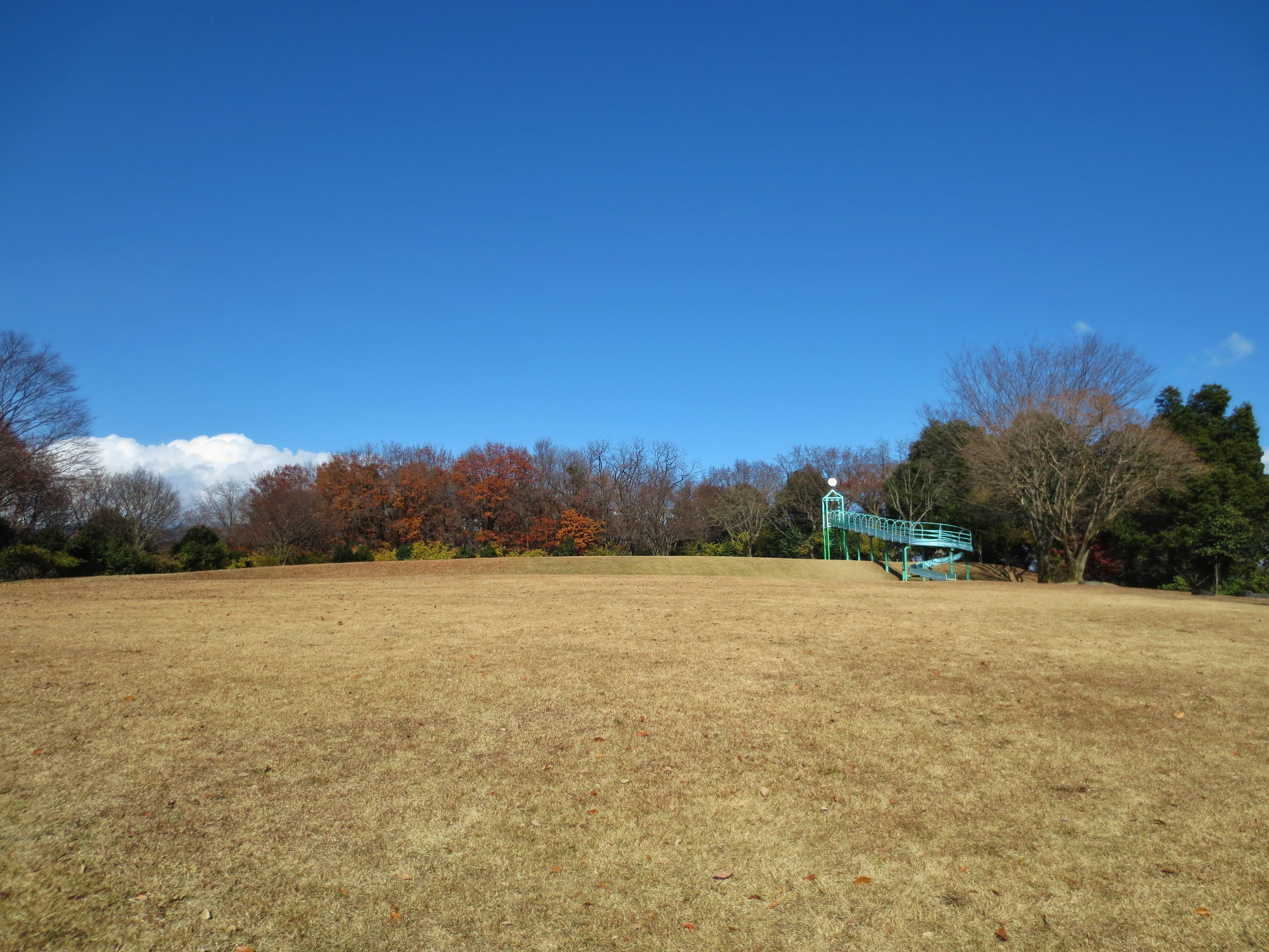 Yamakami Castle.